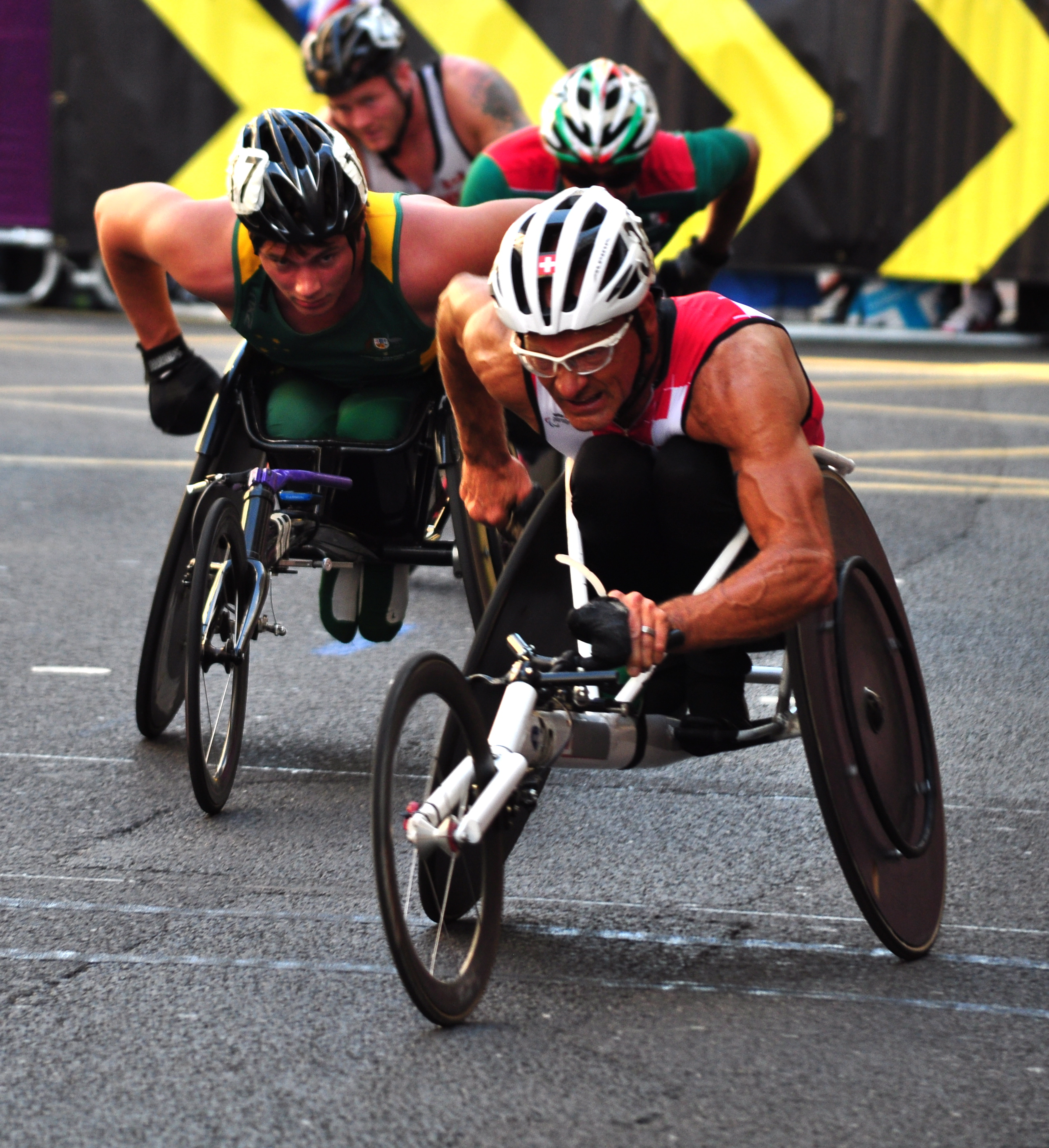 Athletes in the T54 London 2012 Paralympic marathon